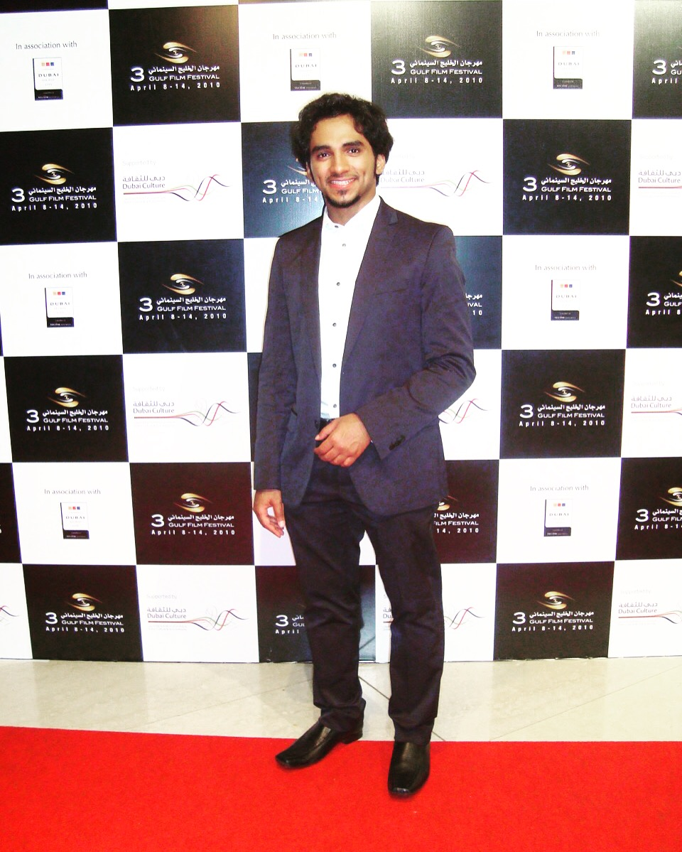 photo